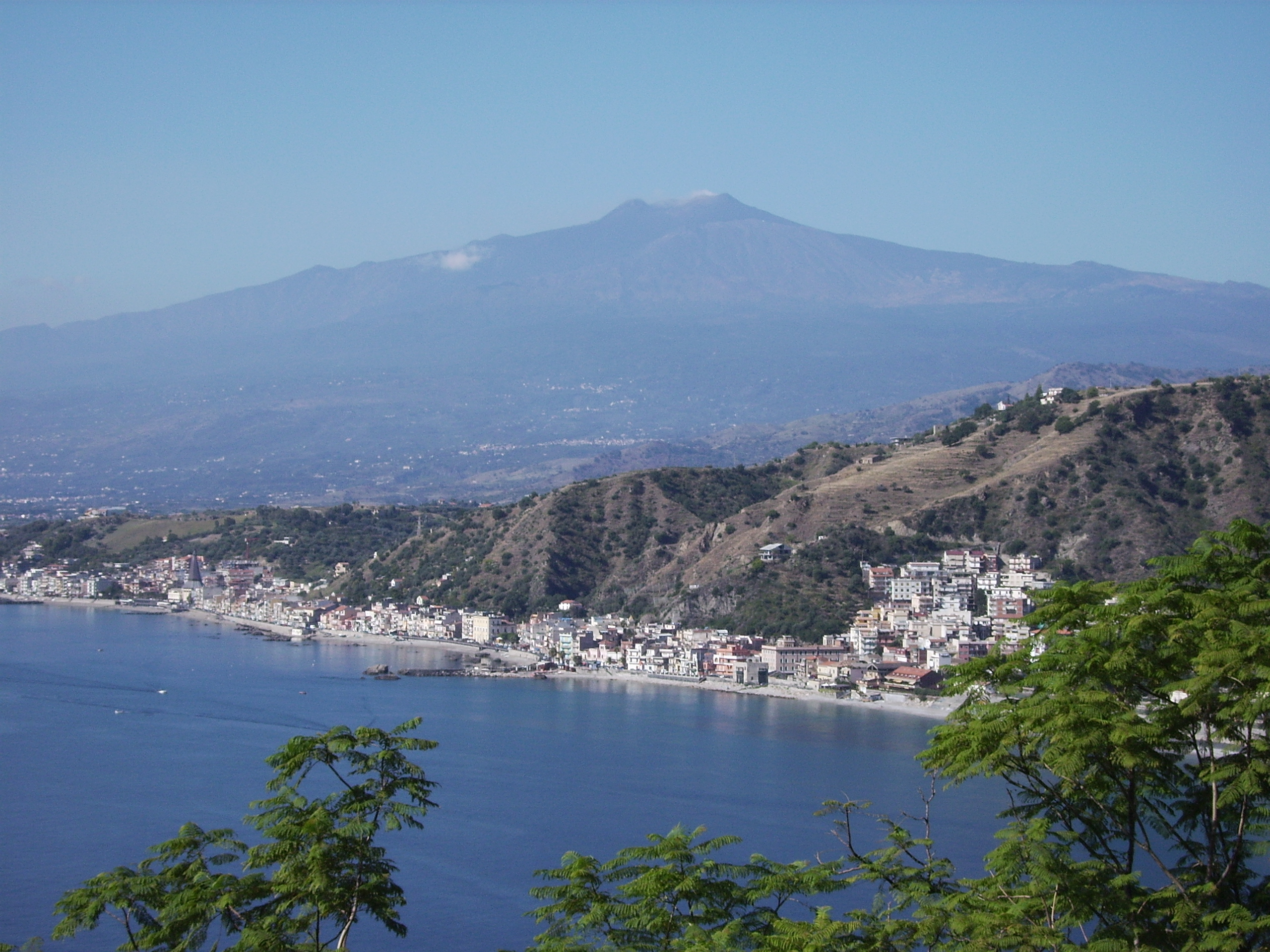 Mount Etna from Taormina in 2006. My own work